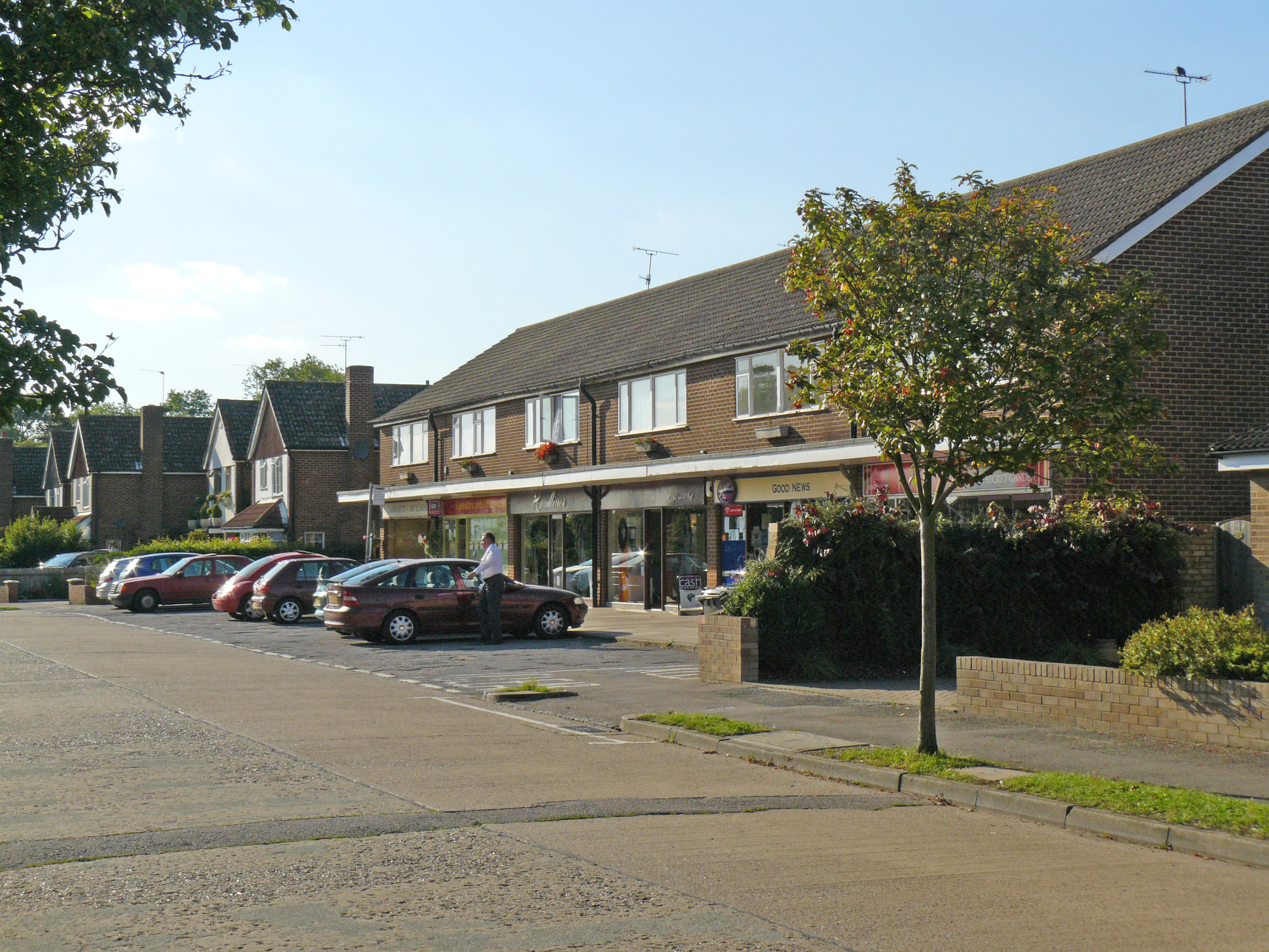 Author: Jamsta